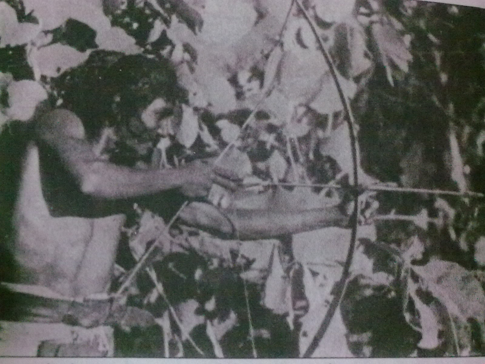 Chenchu_tribal_hunting.jpg uploaded by me.This community is seen in "Nallamala Forests" Andhra Pradesh,India.